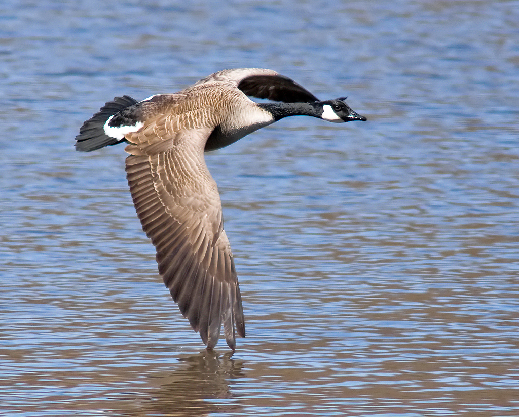 Canada Goose Turning Right.